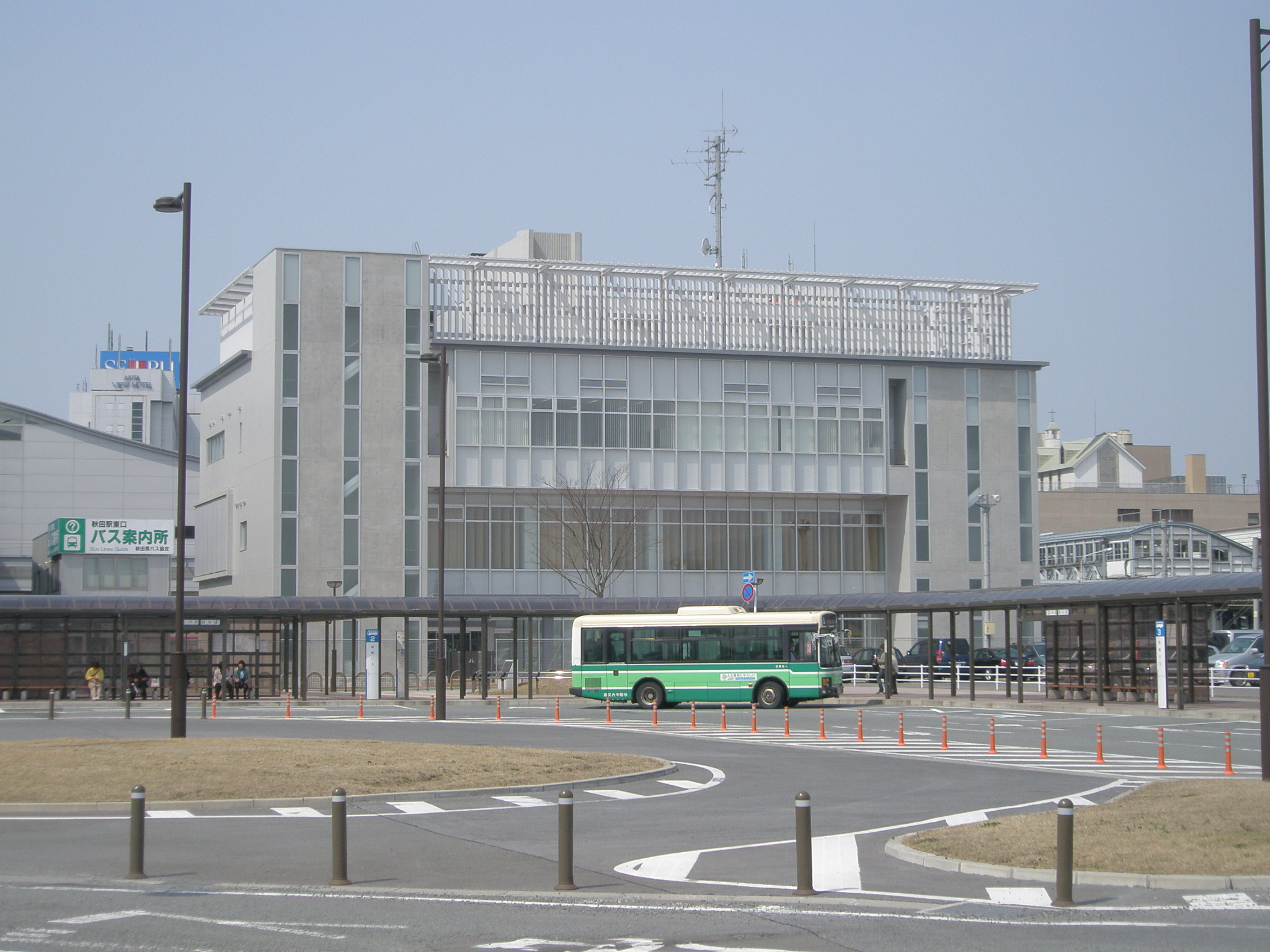 Control building of Akita Chūō Dōro (underpass) at East square of Akita station, in Akita city.